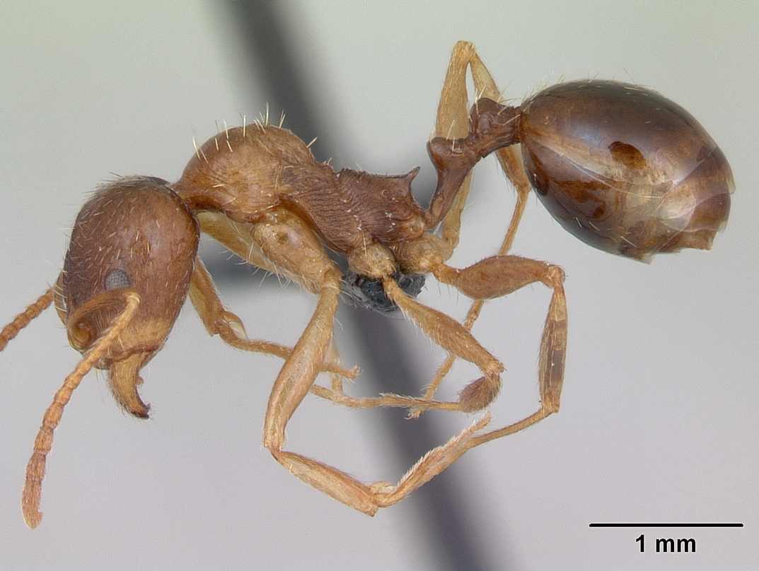 Profile view of ant Aphaenogaster subterranea specimen casent0173578.